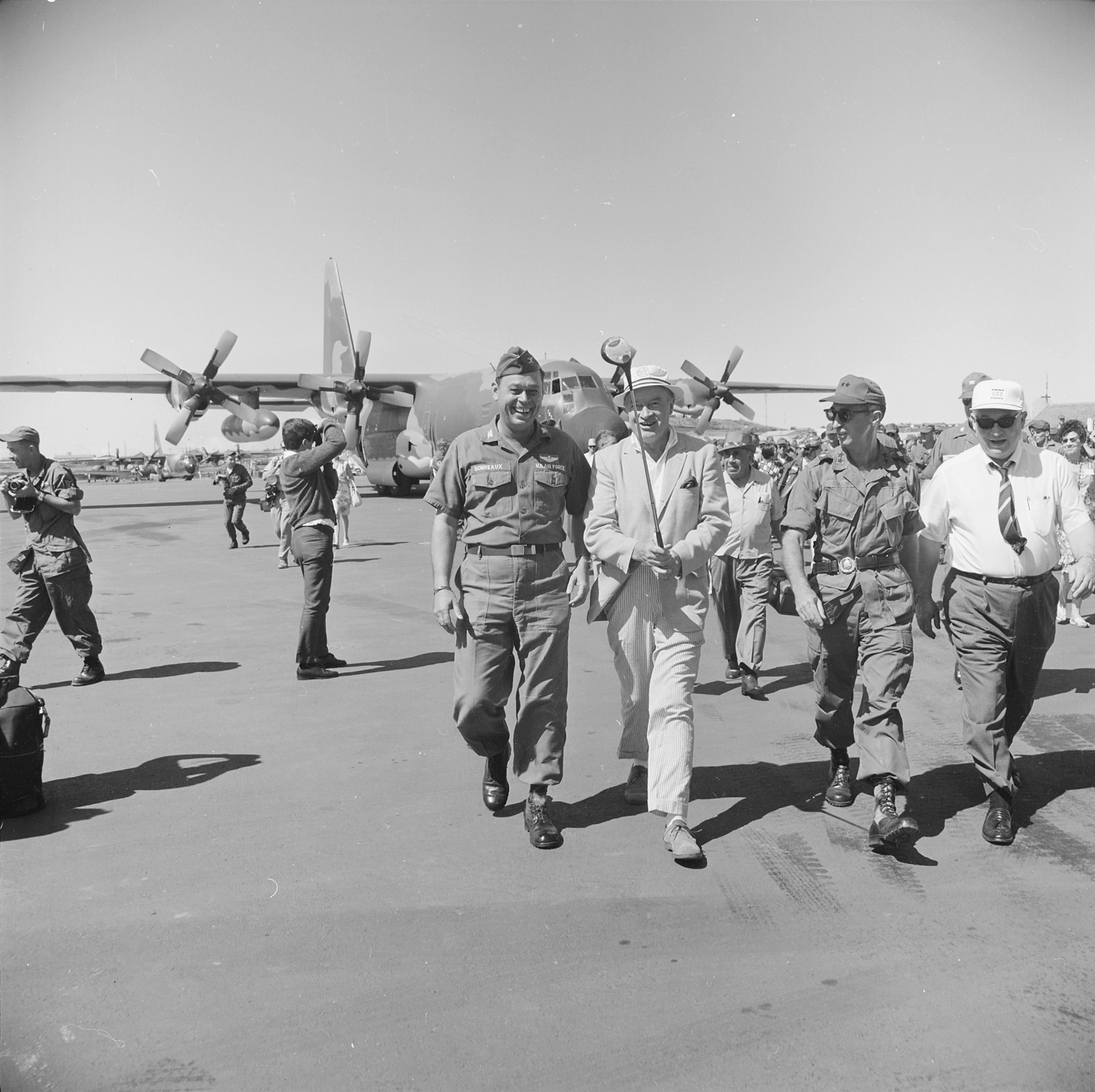 Christmas Special -- Bob Hope and his star-studded cast touched down at Pleiku Air Base, Vietnam, December 19, 1966, enroute to Dragon Mountain, home of the 2nd Brigade, 4th Infantry Division for his first Christmas show for servicemen in Vietnam. Major General A.S. Collins, Jr. (right), commanding general, 4th Infantry Division, and Colonel William K. Bonneaux (left), 633rd Combat Support Group Commander, greeted the Hope troupe upon arrival andescorted them aboard Army helicopters which airlifted them to Dragon Mountain. About 400 Air Force personnel from Pleiku joined some 4,500 Army troops to watch the first Christmas Special show.